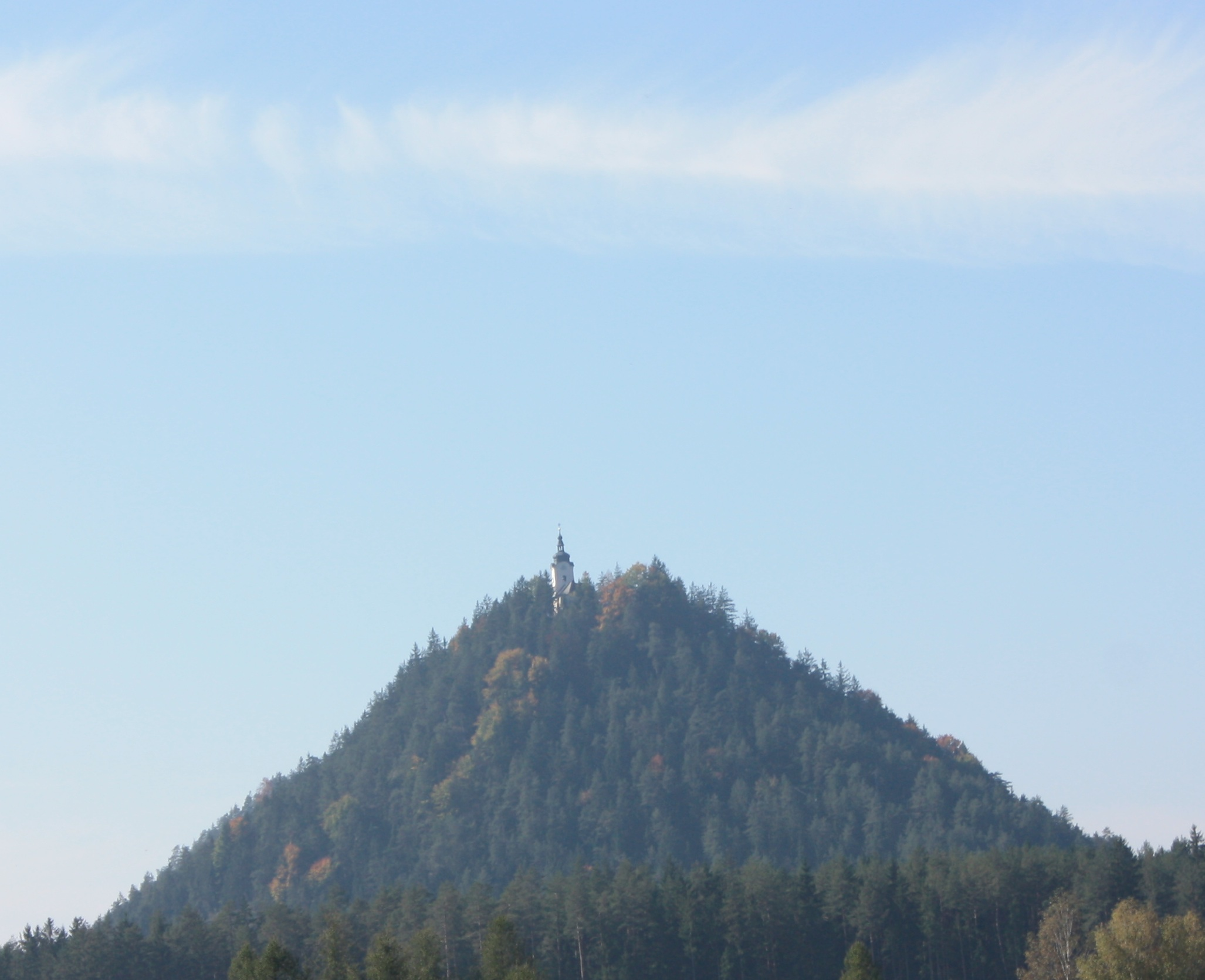 Linsaberg in the community of Ruden